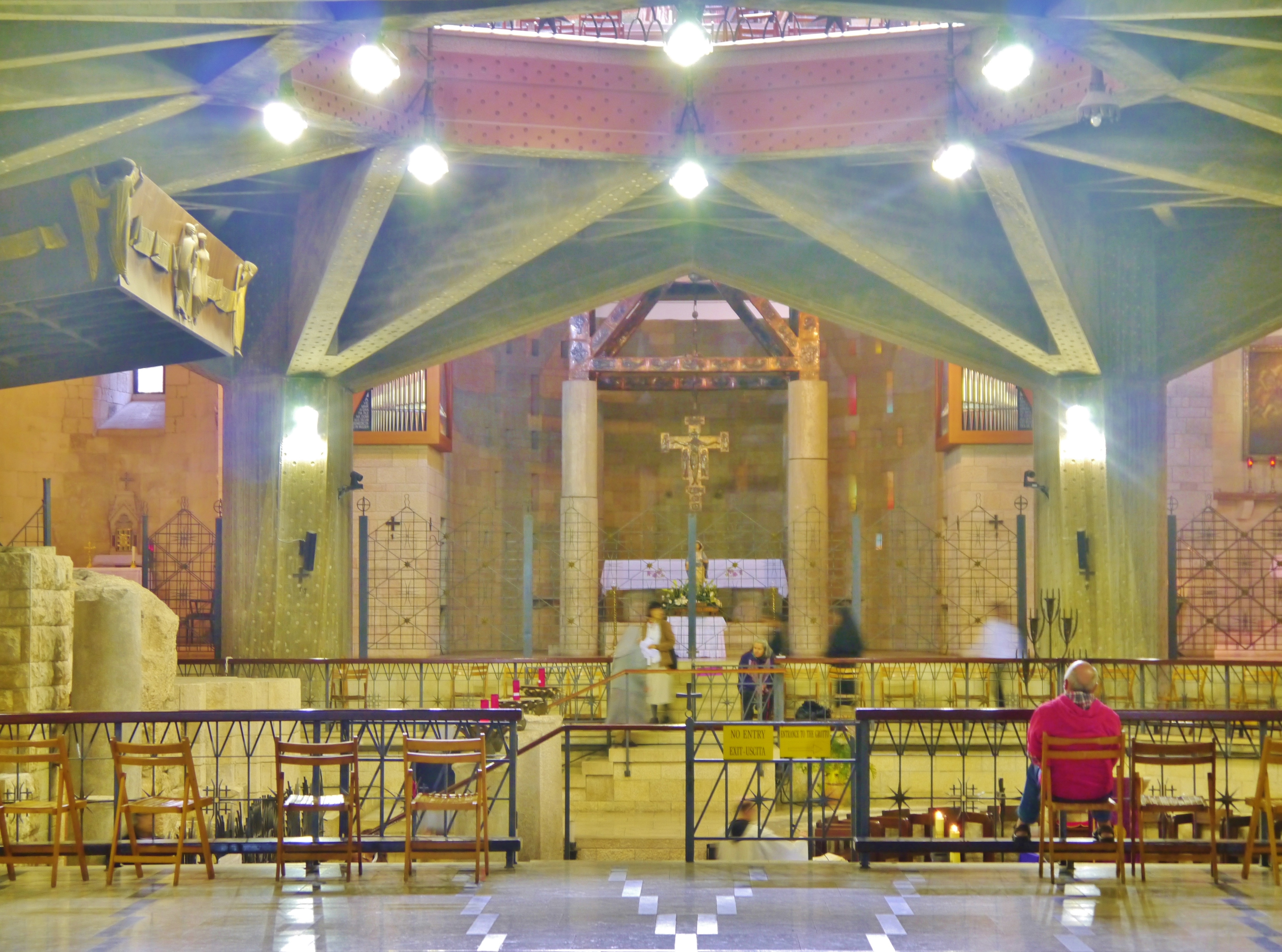 Lower Church of the Church of the Annunciation, Nazareth, Israel